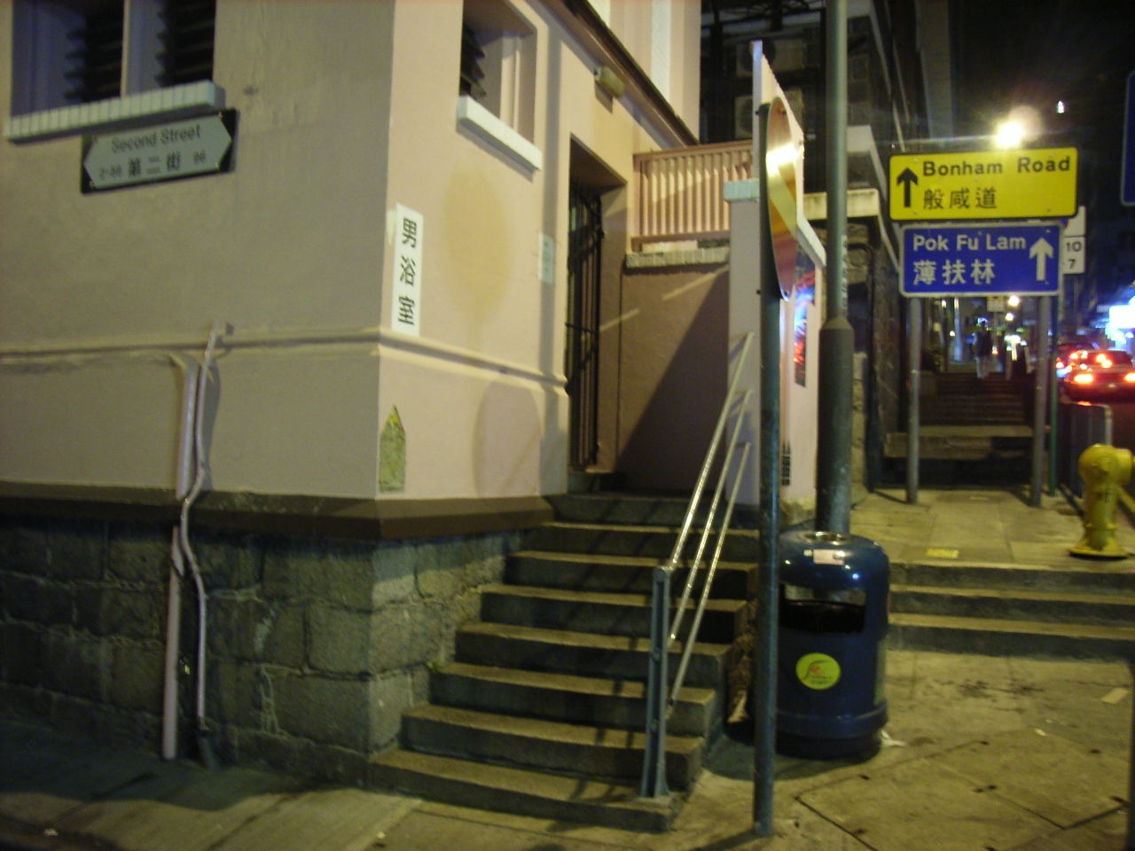 Public Bathroom in the 2nd Street, Sai Yin Pun, Hong Kong By KennethTom